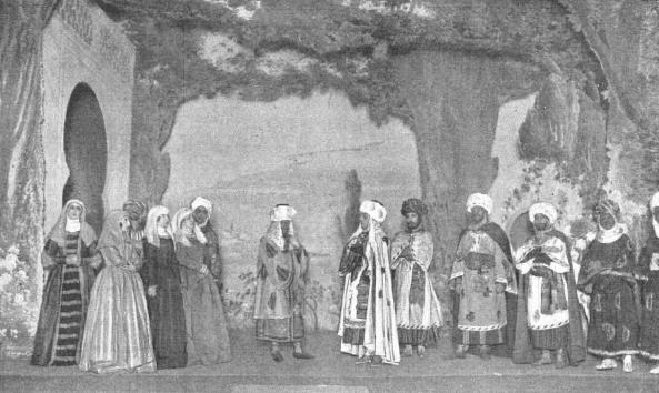 Escena de la obra de teatro La danza de la cautiva, de Eduardo Marquina